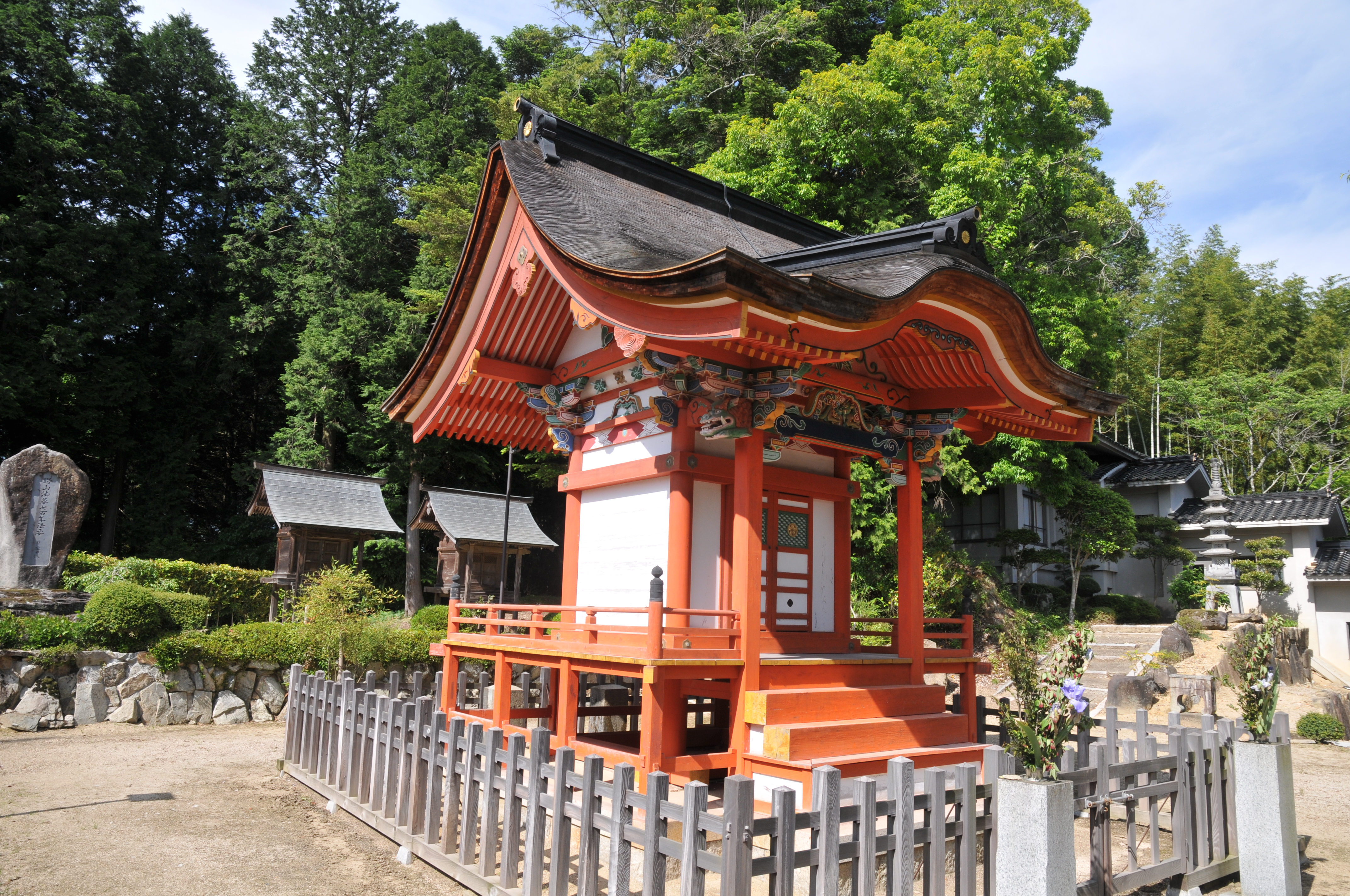 Banshin-dō, Myōhon-ji(Japan's national important cultural property), Okayama Pref., Japan